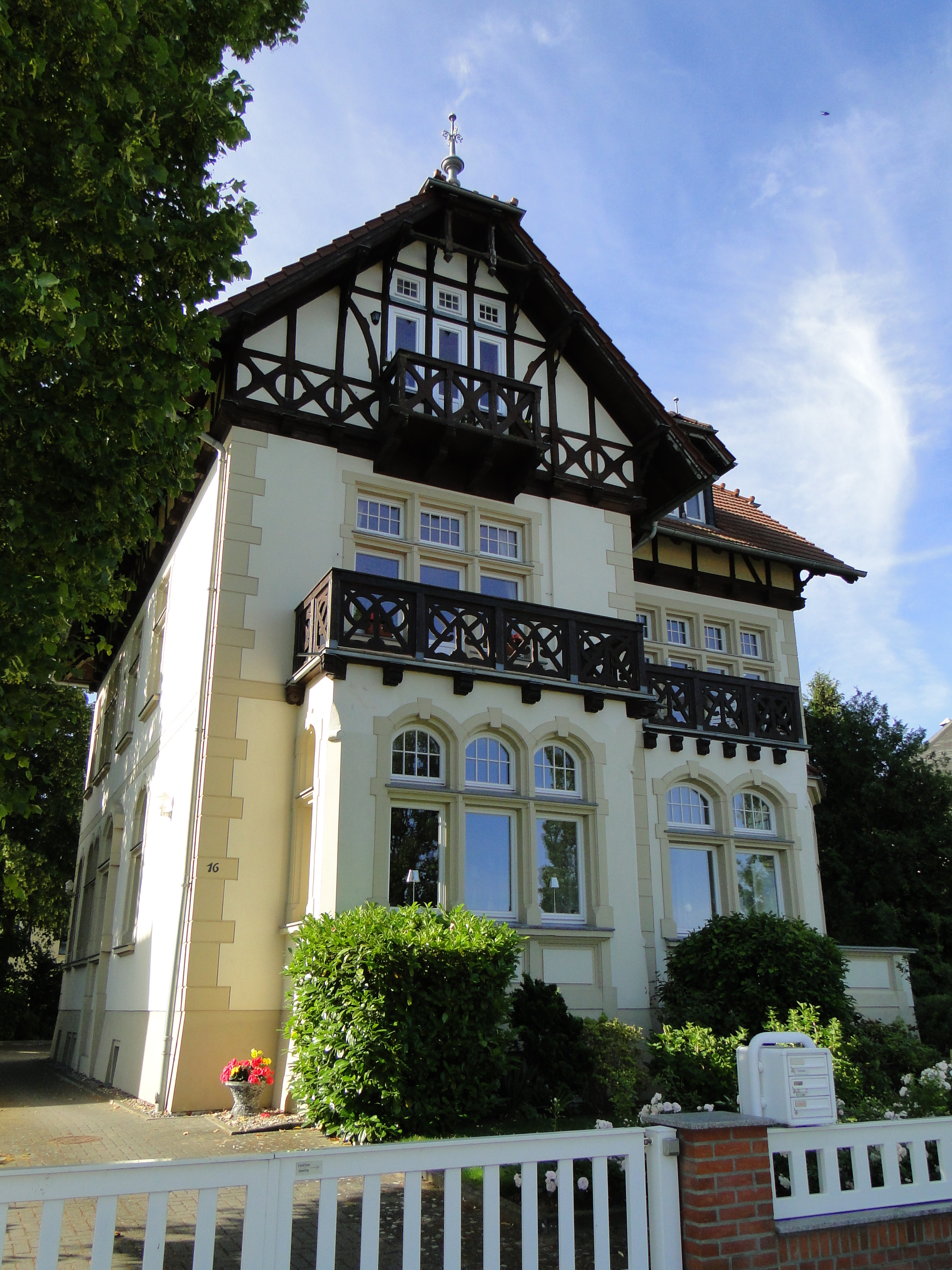 Villa at Zippendorf's beach esplanade in Schwerin, Mecklenburg-Vorpommern, Germany